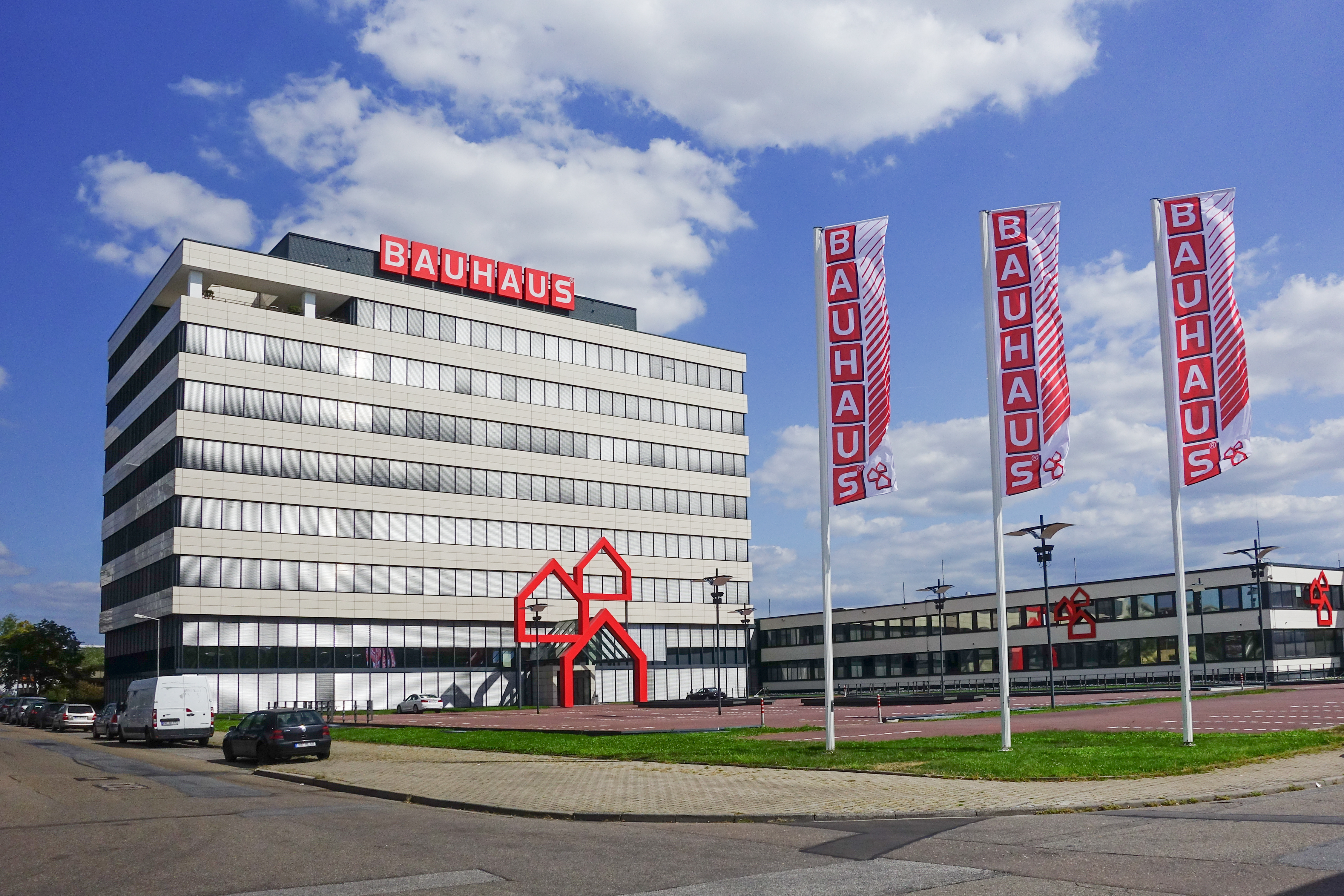 Bauhaus headquarters Mannheim, Gutenbergstraße 21, 68167 Mannheim, Germany